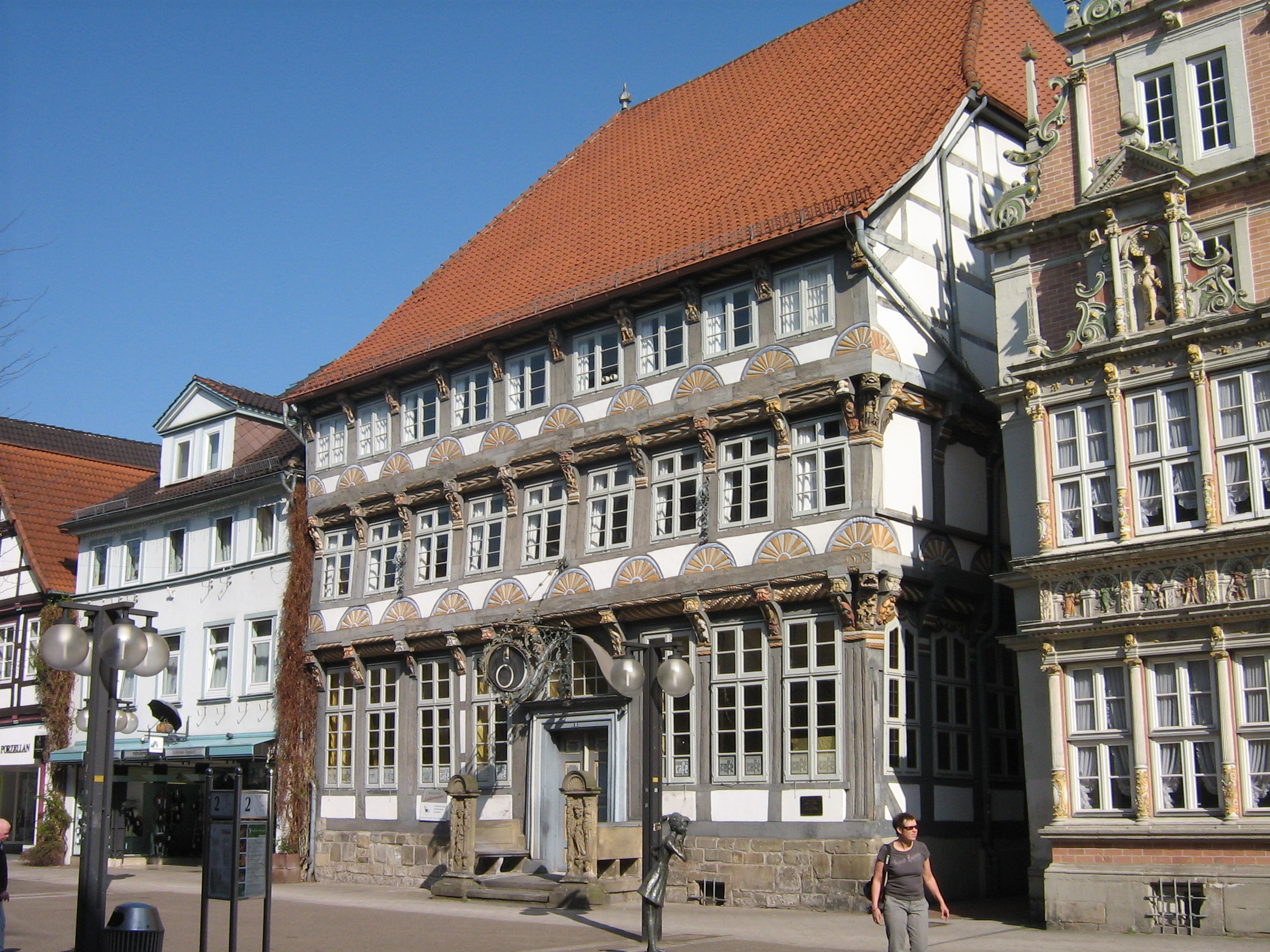 Stiftsherrenhaus at the city of Hamelin, Germany